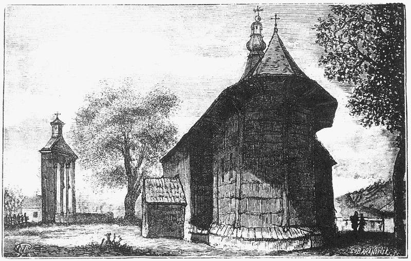 Wooden church in Tylicz from 1612. Wood engraving by E. Baranowski based on Gerson's drawing